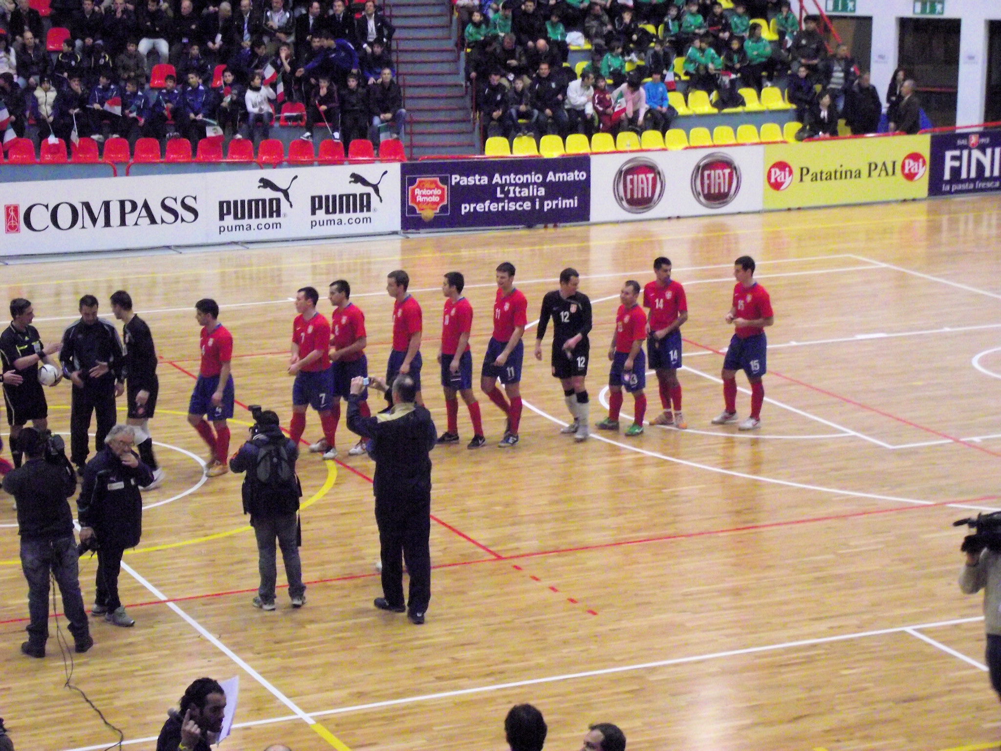 The players of the futsal national team of Serbia before the test match with Italy played in Carbonia, Sardinia, Italy, on 19th January 2011, ended 2-0 for the italians